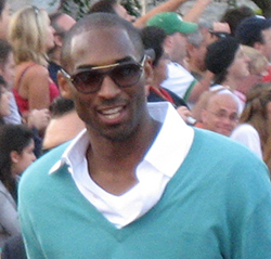 Picture of Kobe Bryant from the Pirates of the Caribbean: At World's End premiere at Disneyland